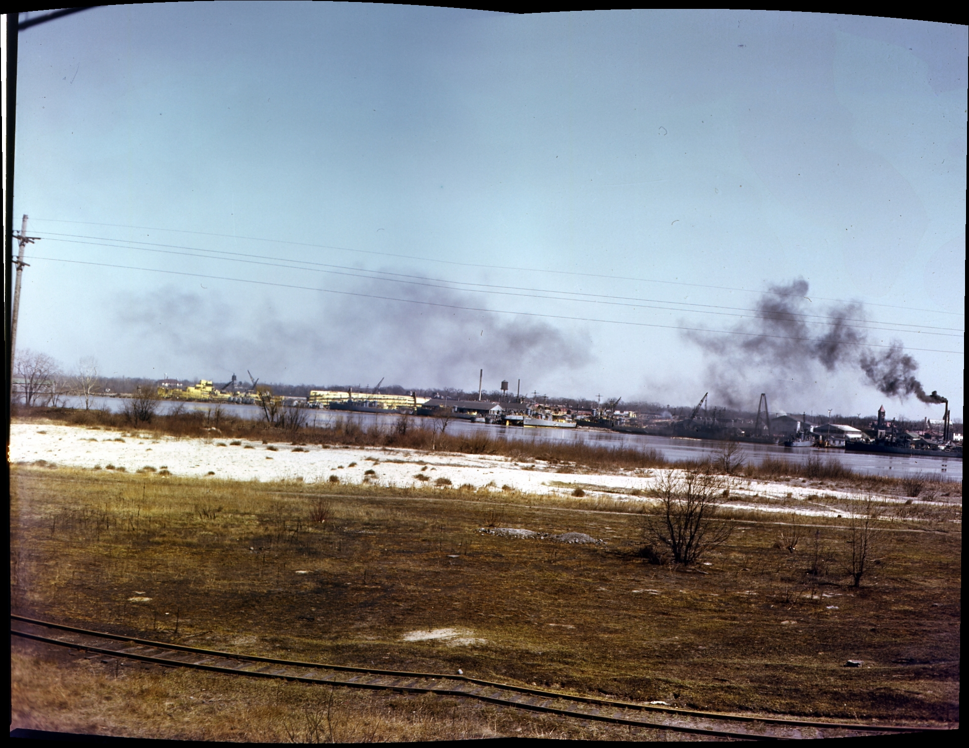 Looking east from west bank of Saginaw River, Defoe Shipbuilding during WWII. Upside down ships being built using the Defoe 'rollover' technique clearly visible.